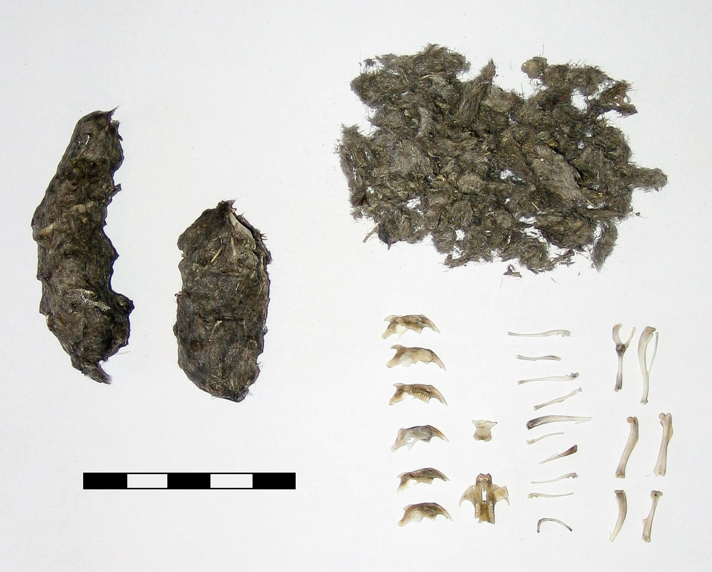 Pellet from a Long-eared Owl (Asio otus) and its components.